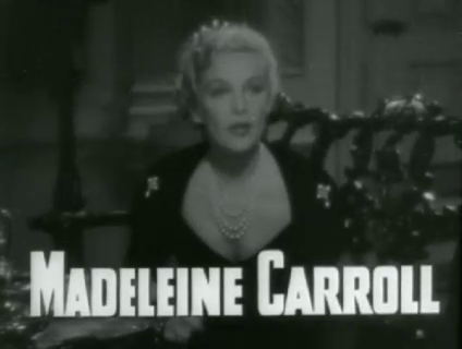 Madeleine Carroll in Lloyd's of London 1936 Henry King